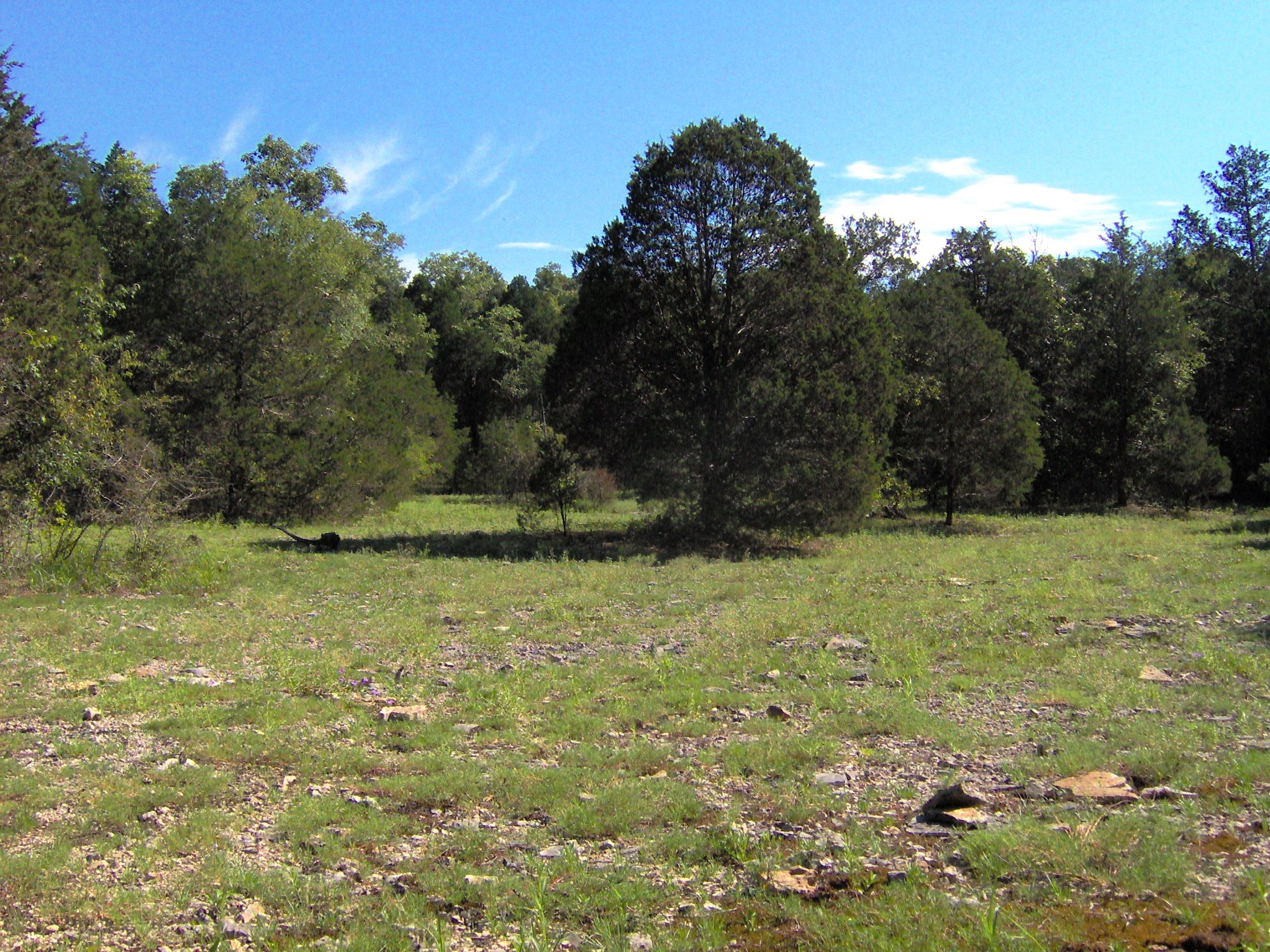 Cedar glade at Cedars of Lebanon State Park in Wilson County, Tennessee, in the southeastern United States. This particular glade is located along the Cedar Glades Trail, near the visitor center.